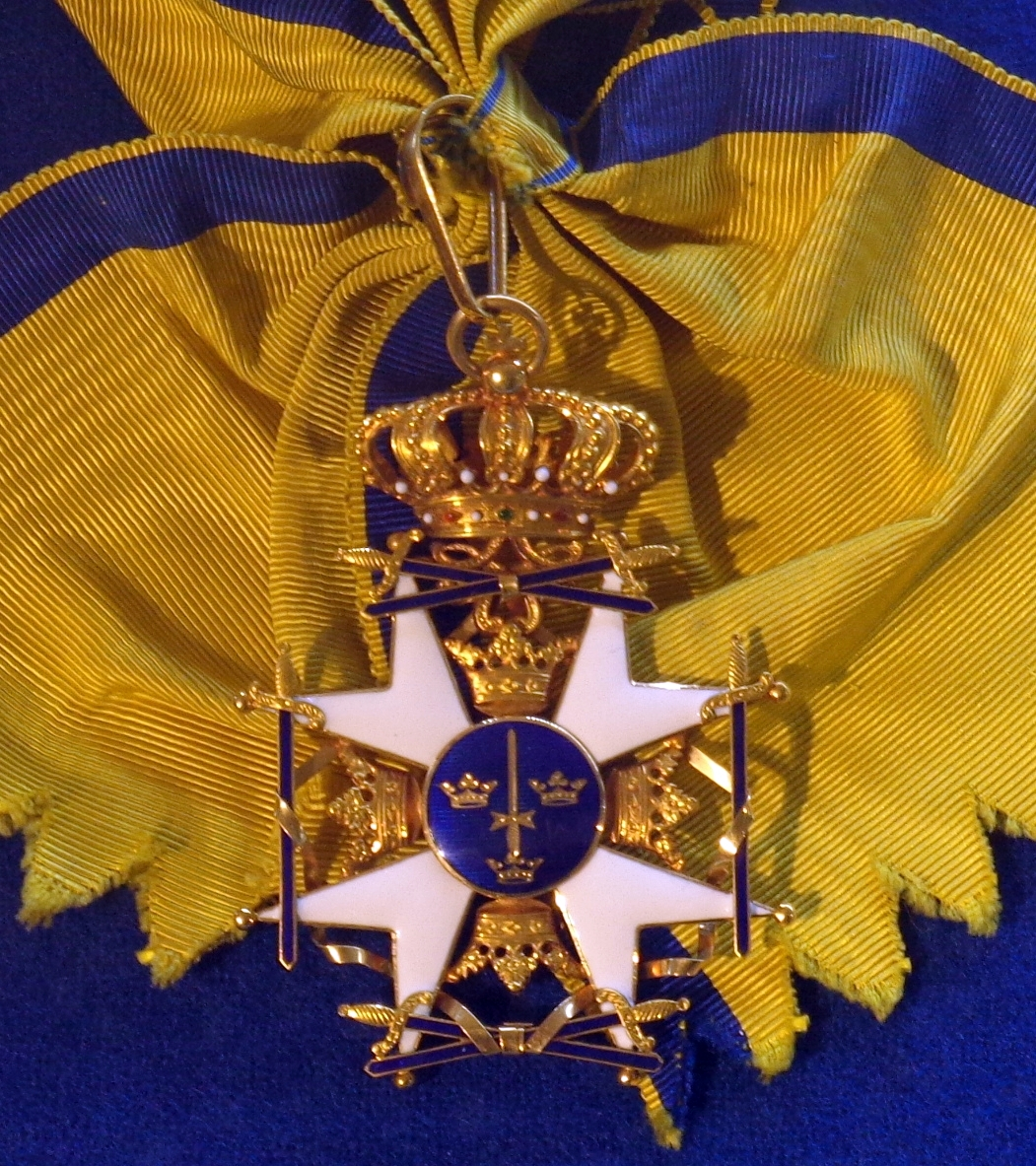 Order of the Sword, badge and sash of Grand Cross. Sweden. The exhibition of the Tallinn Museum of Orders of Knighthood, Estonia.